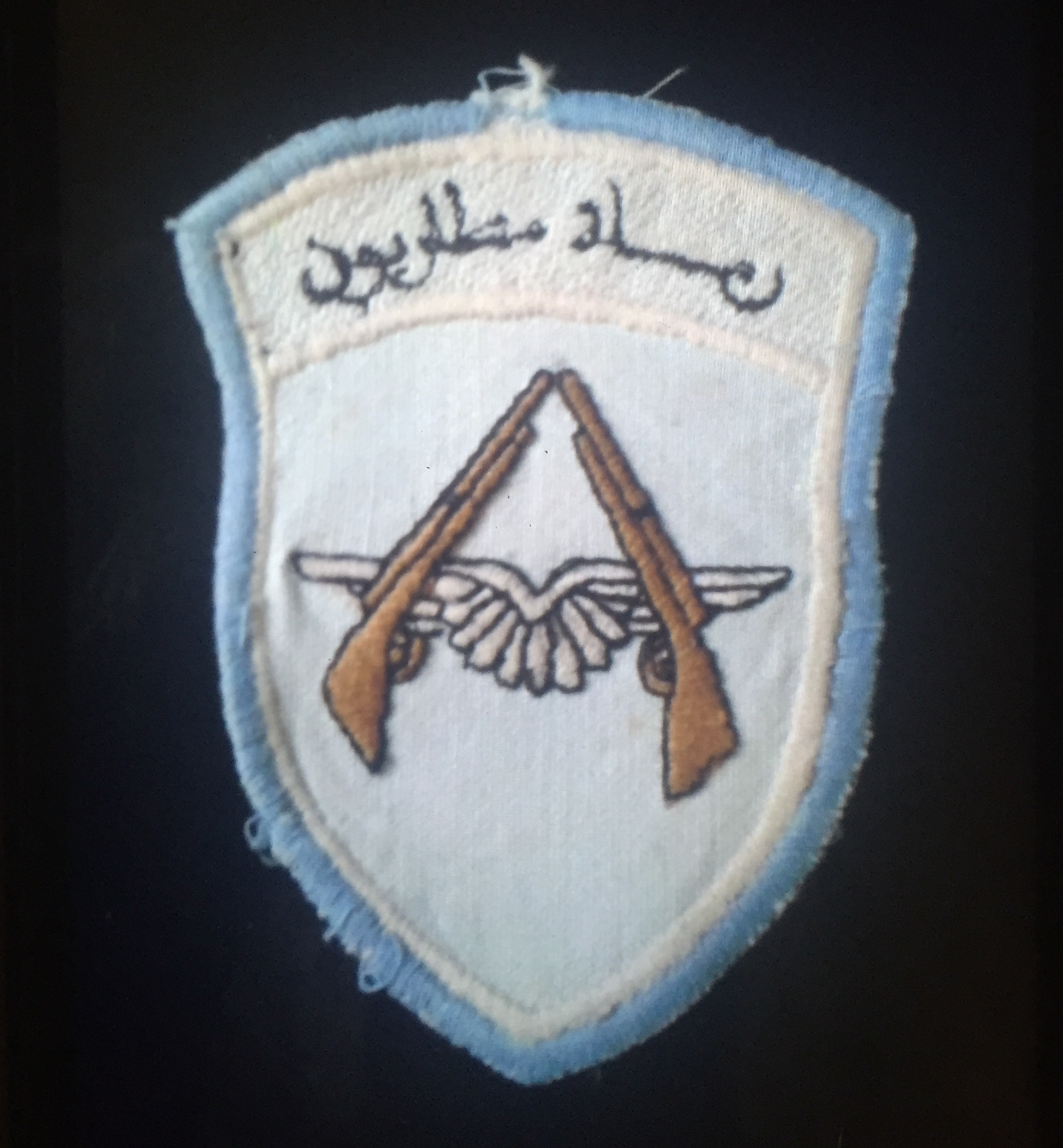 Insigna of the algerian air commandos rifle